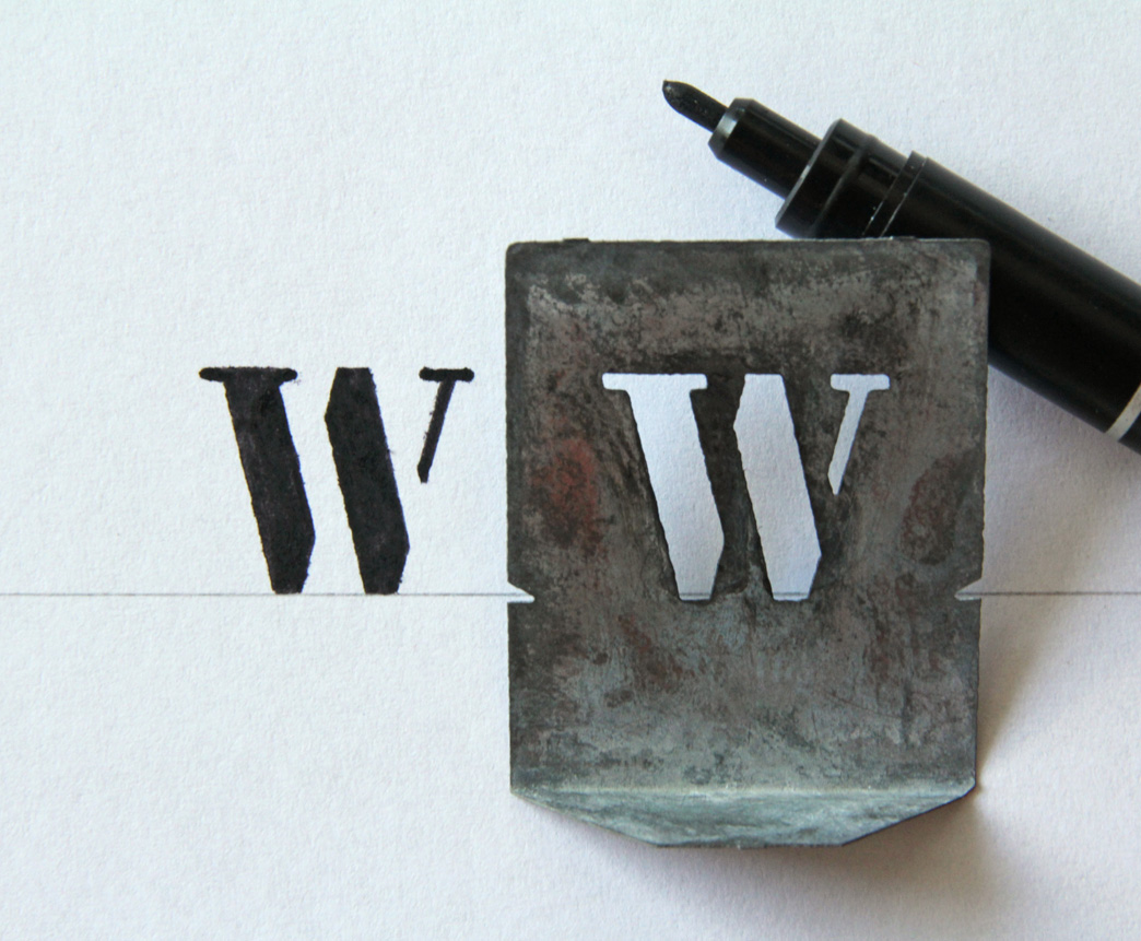 Metal stencil for letter "W".